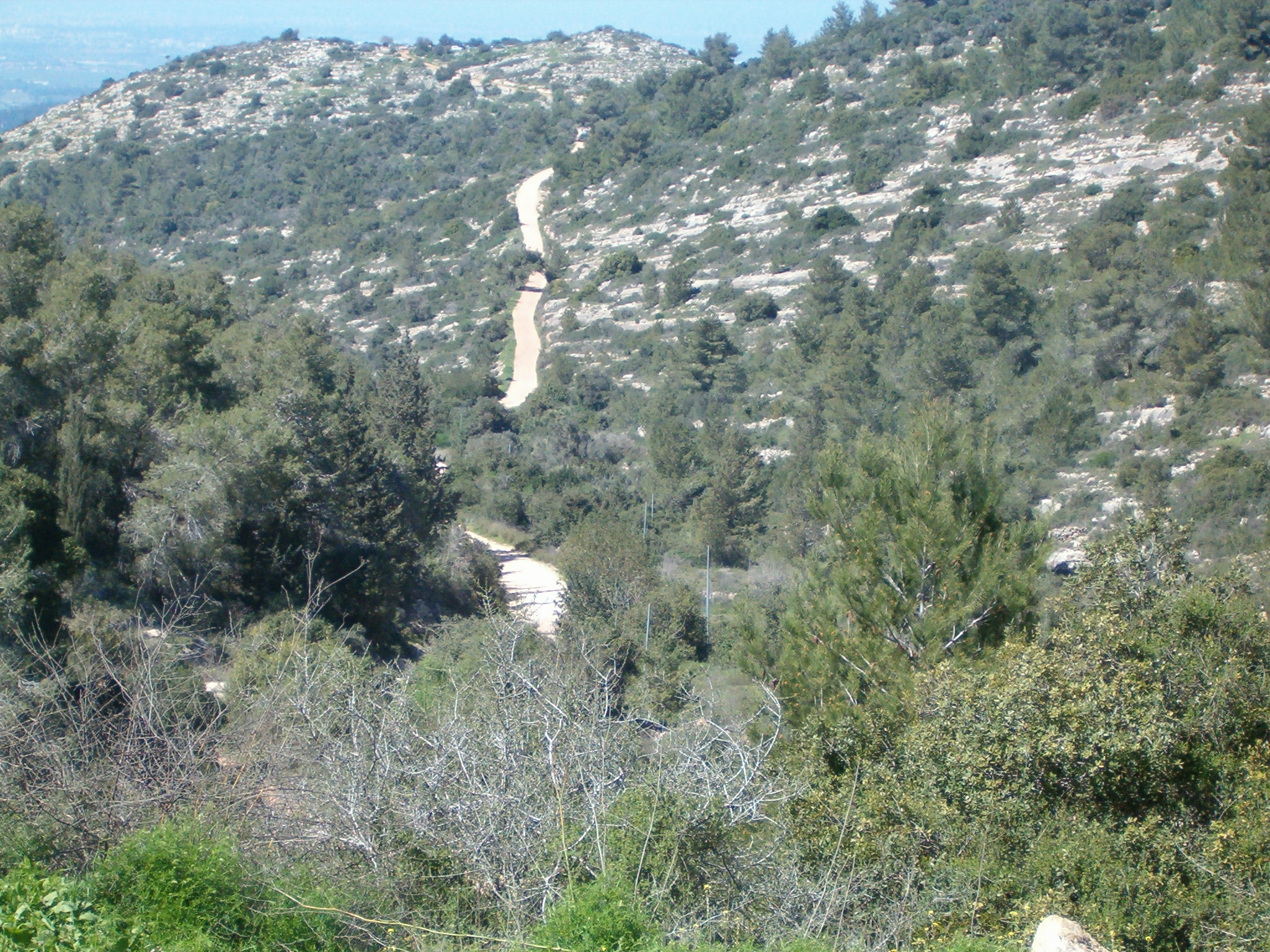 Burma road